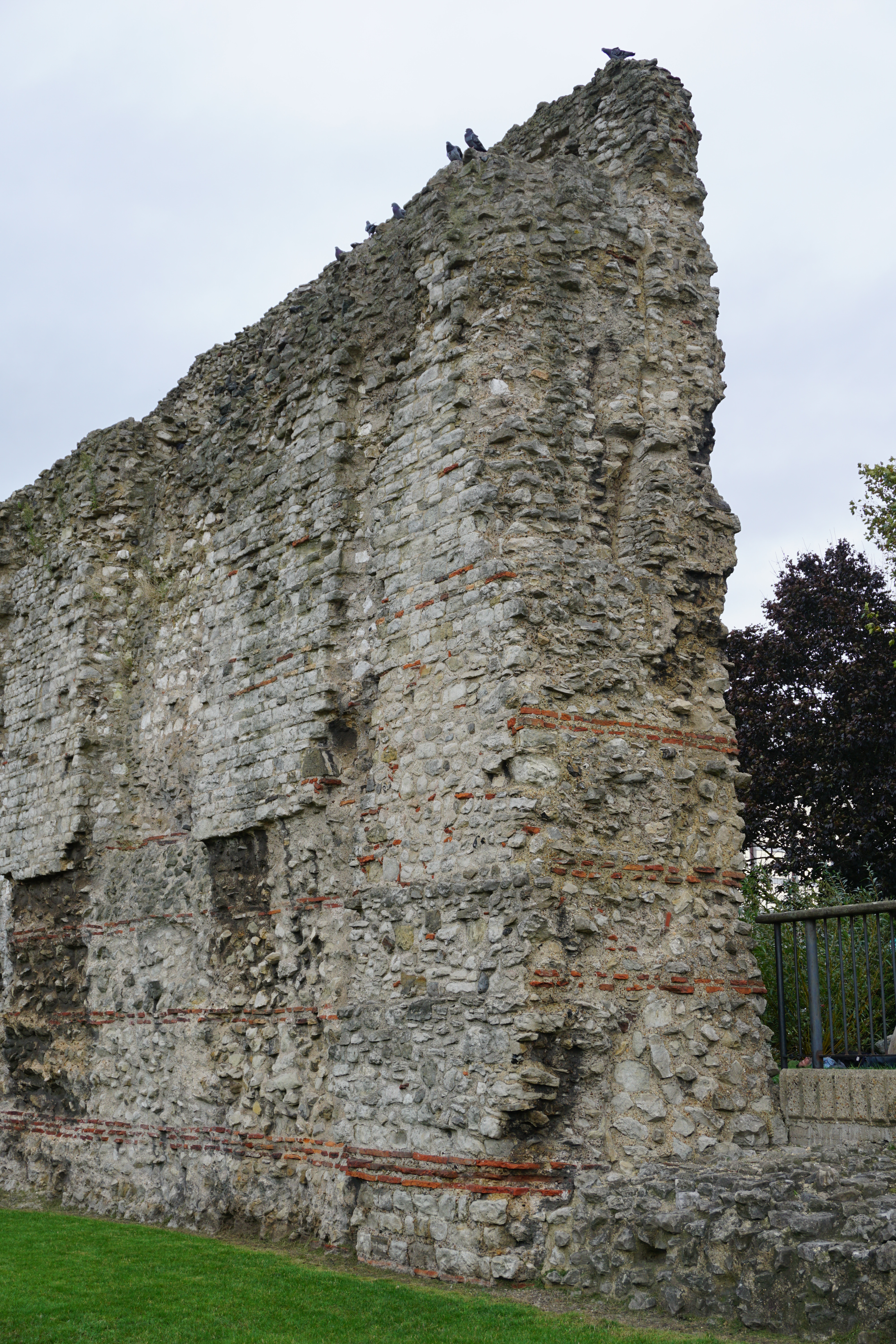 Section of London Wall, Tower Hill